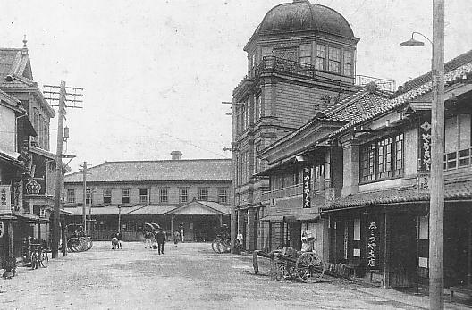 Nagano downtown in Taisho era